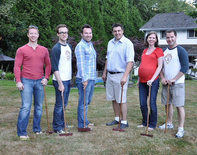 The final contestants in the annual Wile Cup tournament.